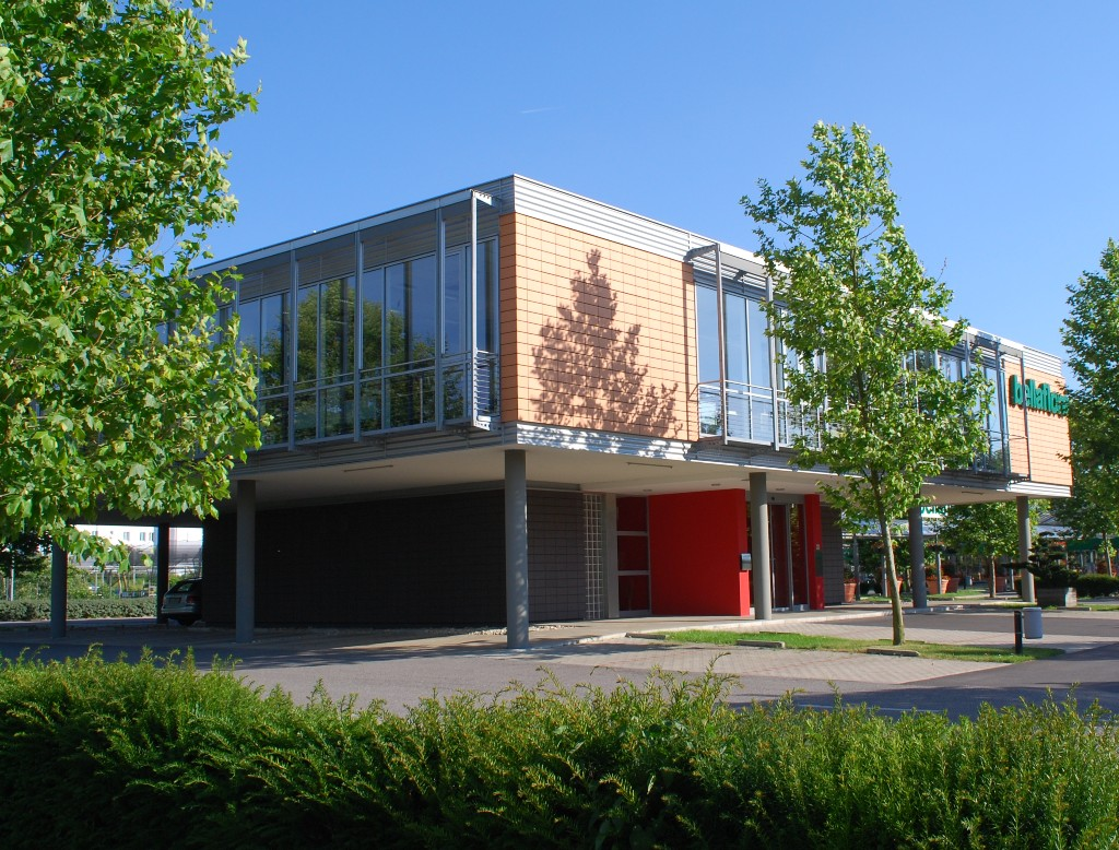 Headquarters of company Bellaflora in Leonding, Austria